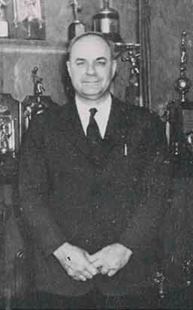 Pittsburg State University football coach Charles Morgan in 1945